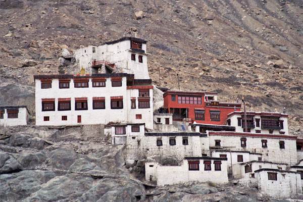 Diskit gompa, Ladakh, India